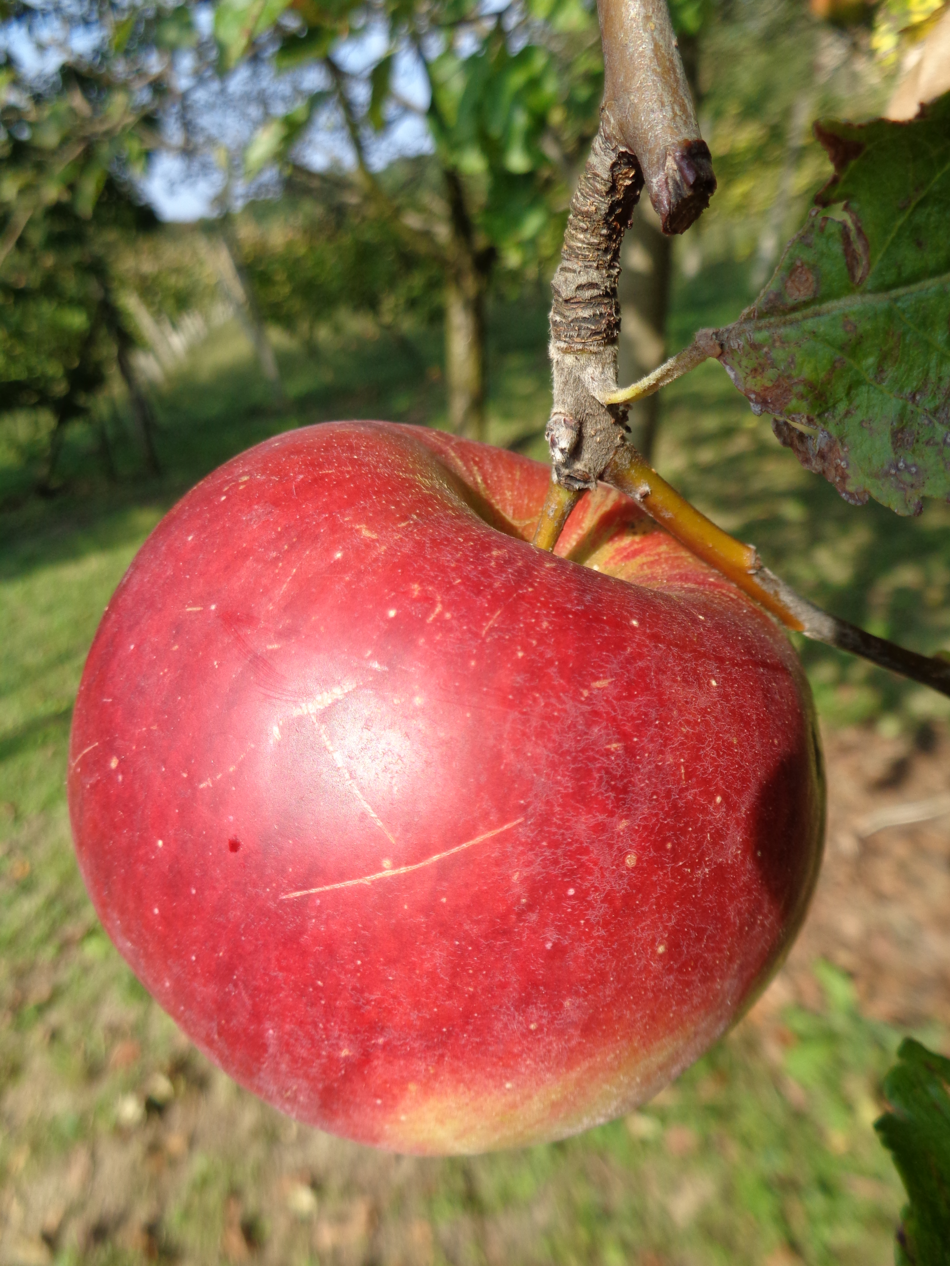 "Idared" apple cultivar, grown in Medjimurje County, northern Croatia